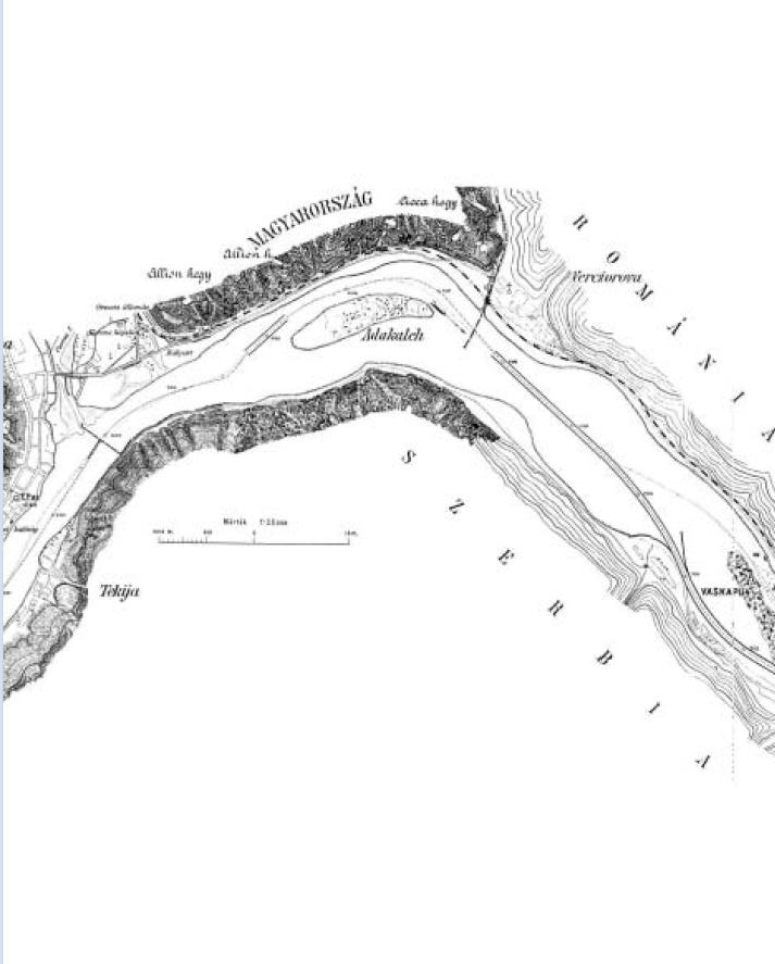 Map of Ada Kale